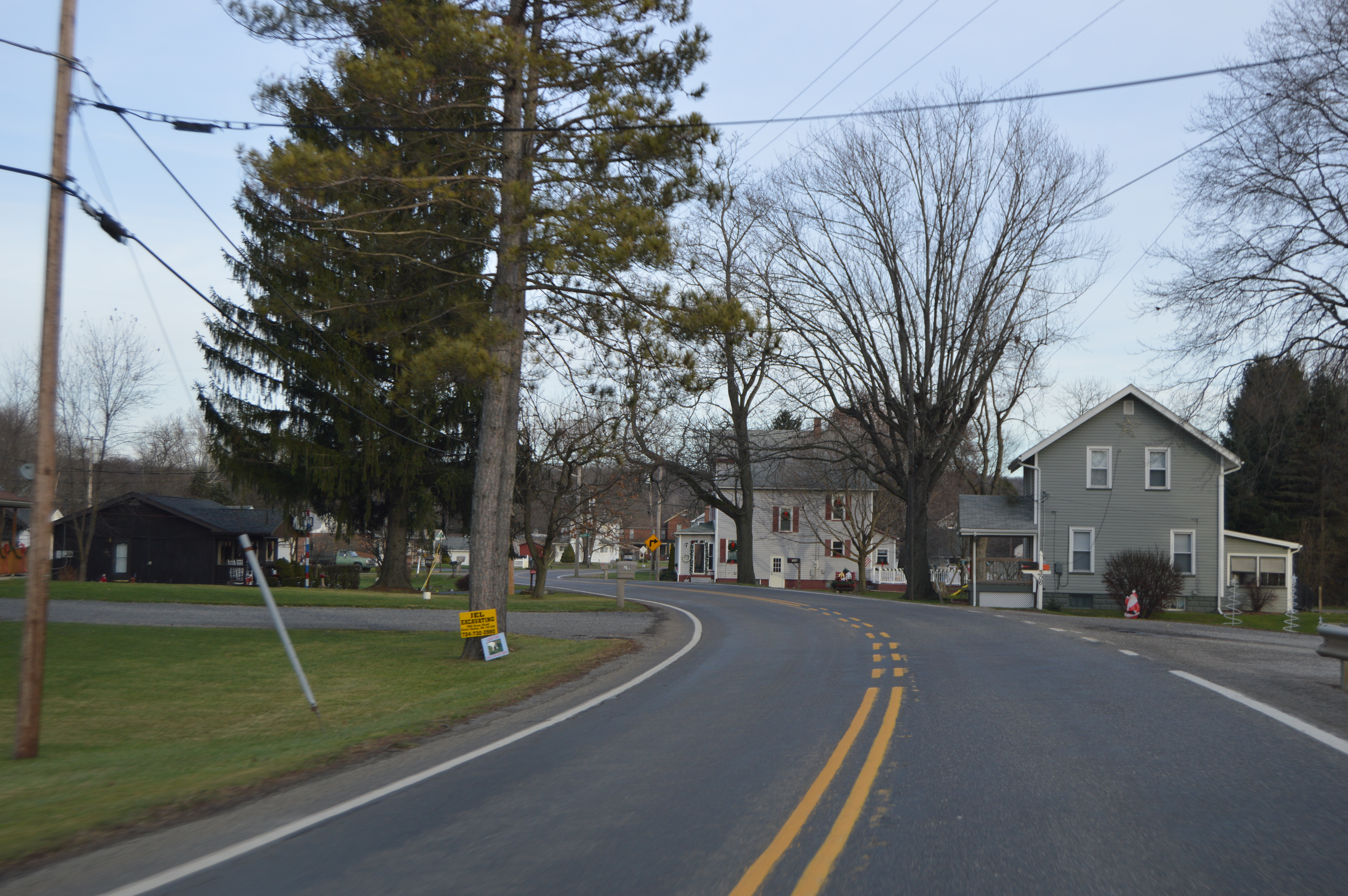 Houses on the western edge of Edinburg, Pennsylvania, United States, as seen when travelling eastward on Pennsylvania Route 551.